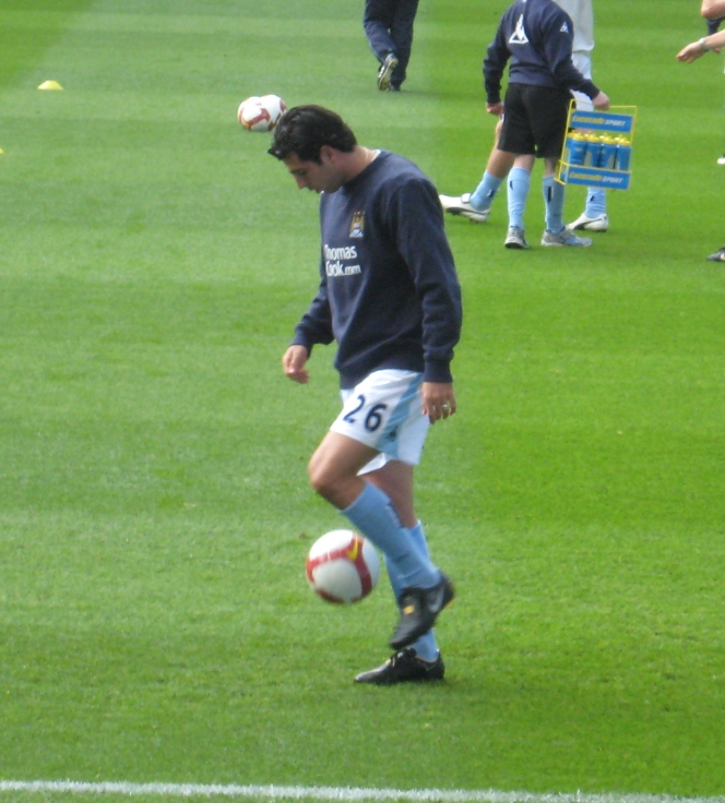 Manchester City defender Tal Ben-Haim during a pre-match warmup